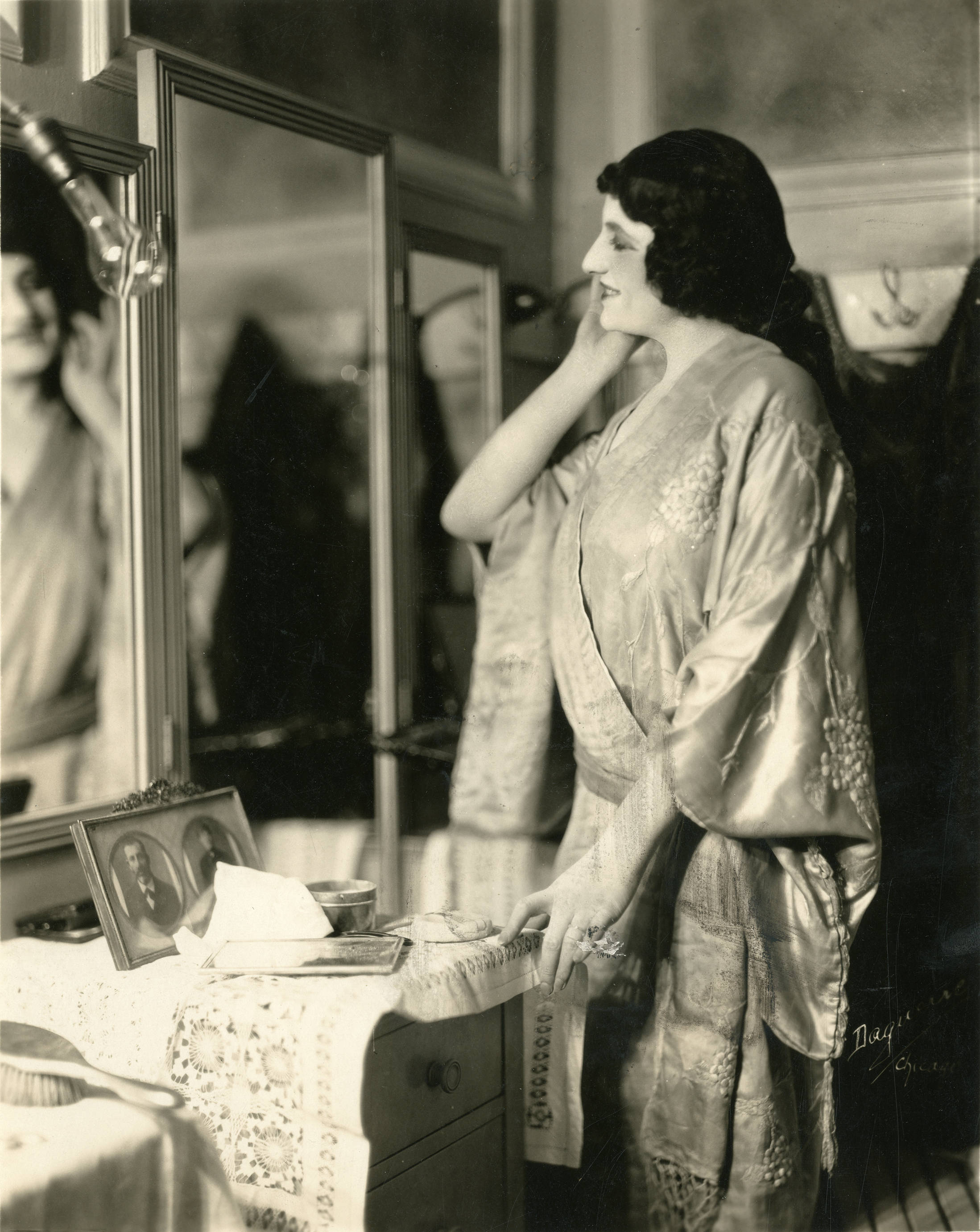 Rosa Raisa, opera singer Subjects: singers